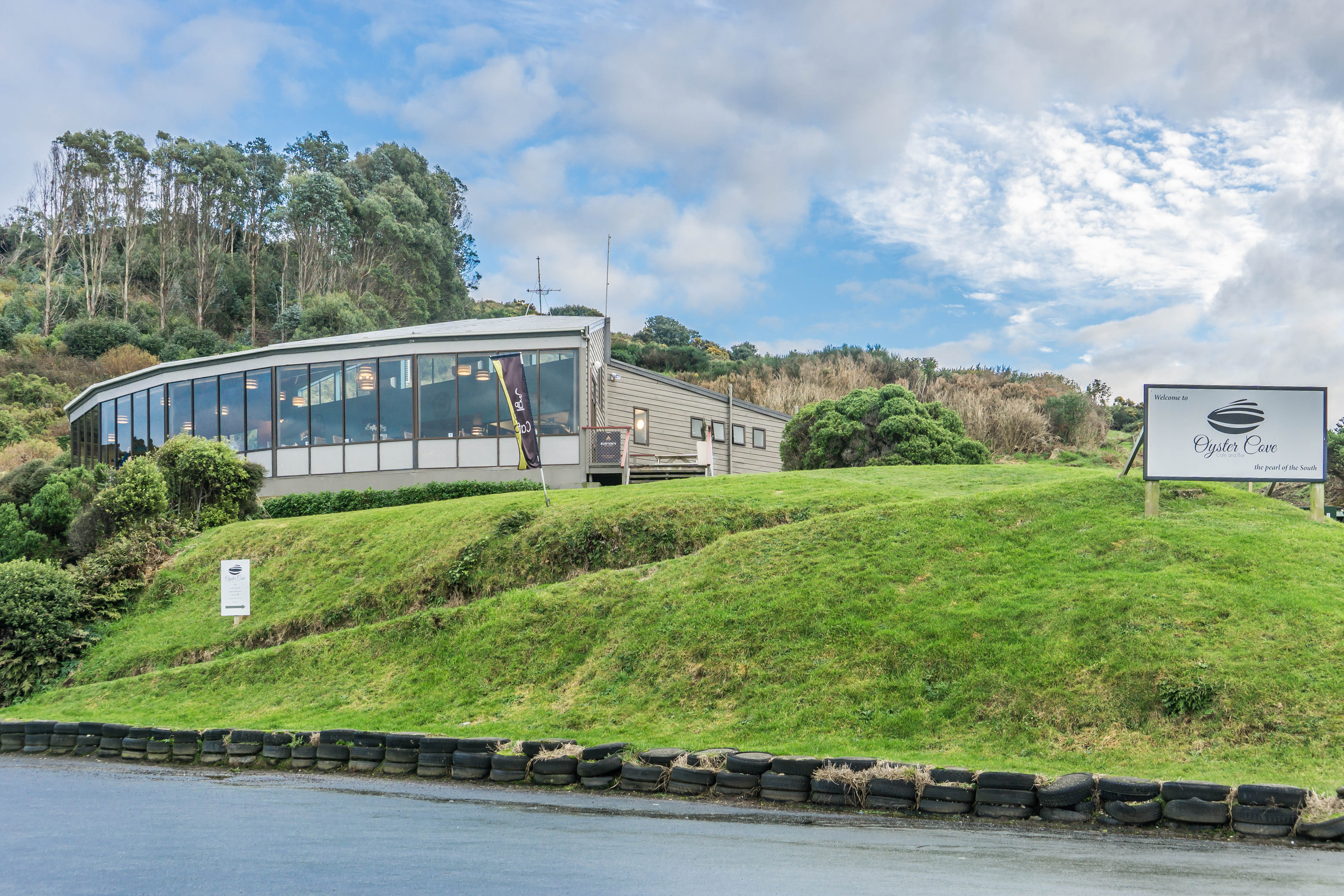 Cafe and Bar "Oyster Cove"